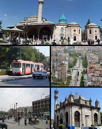 Collage of Konya